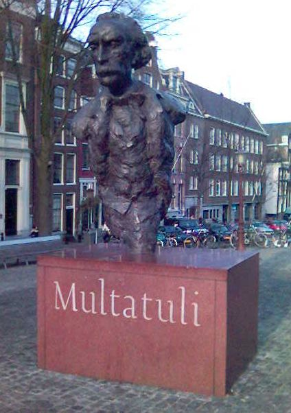 Statue of Dutch writer Multatuli in Amsterdam. Own work.